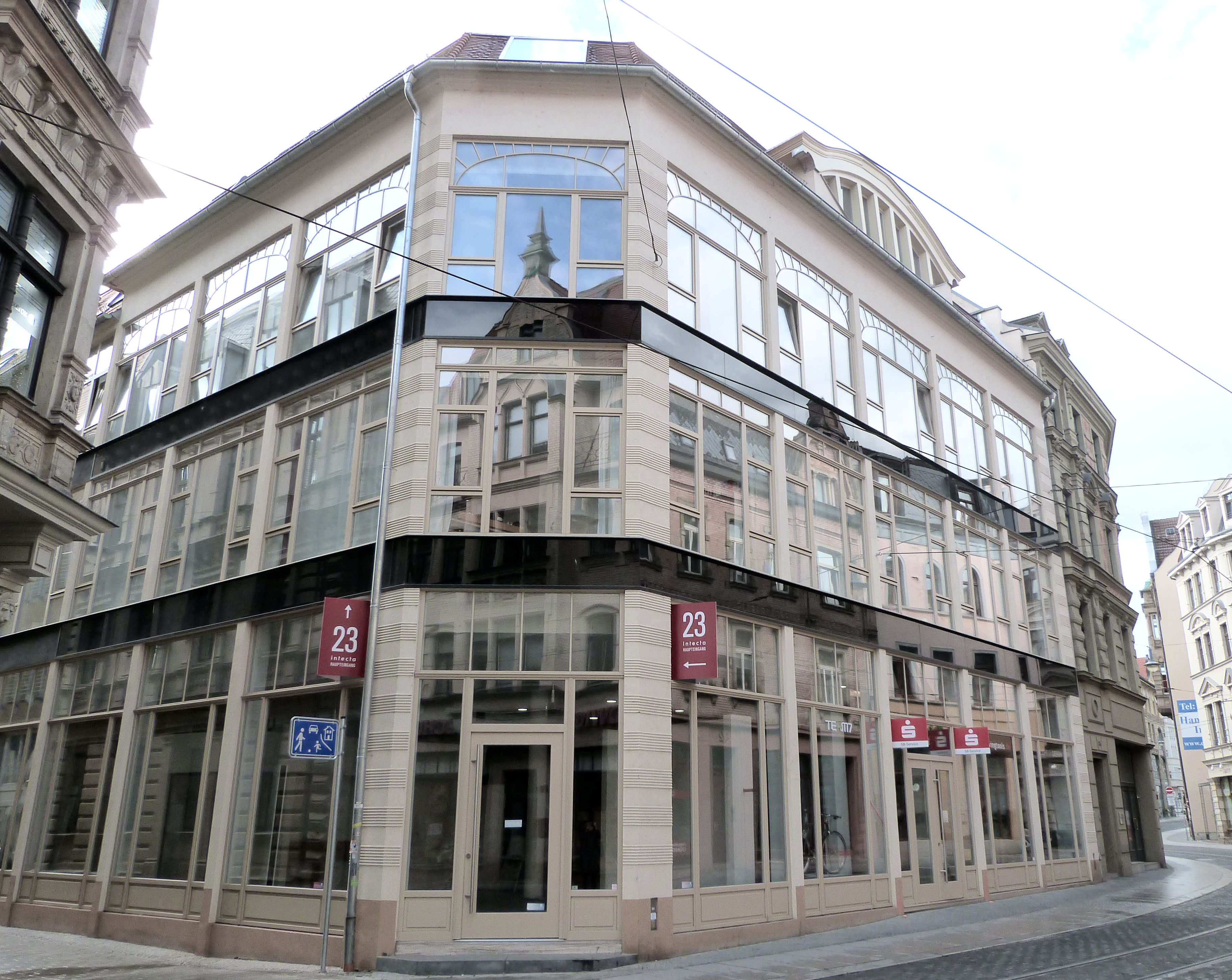 House No. 23, Große Ulrichstrasse, Halle (Saale)